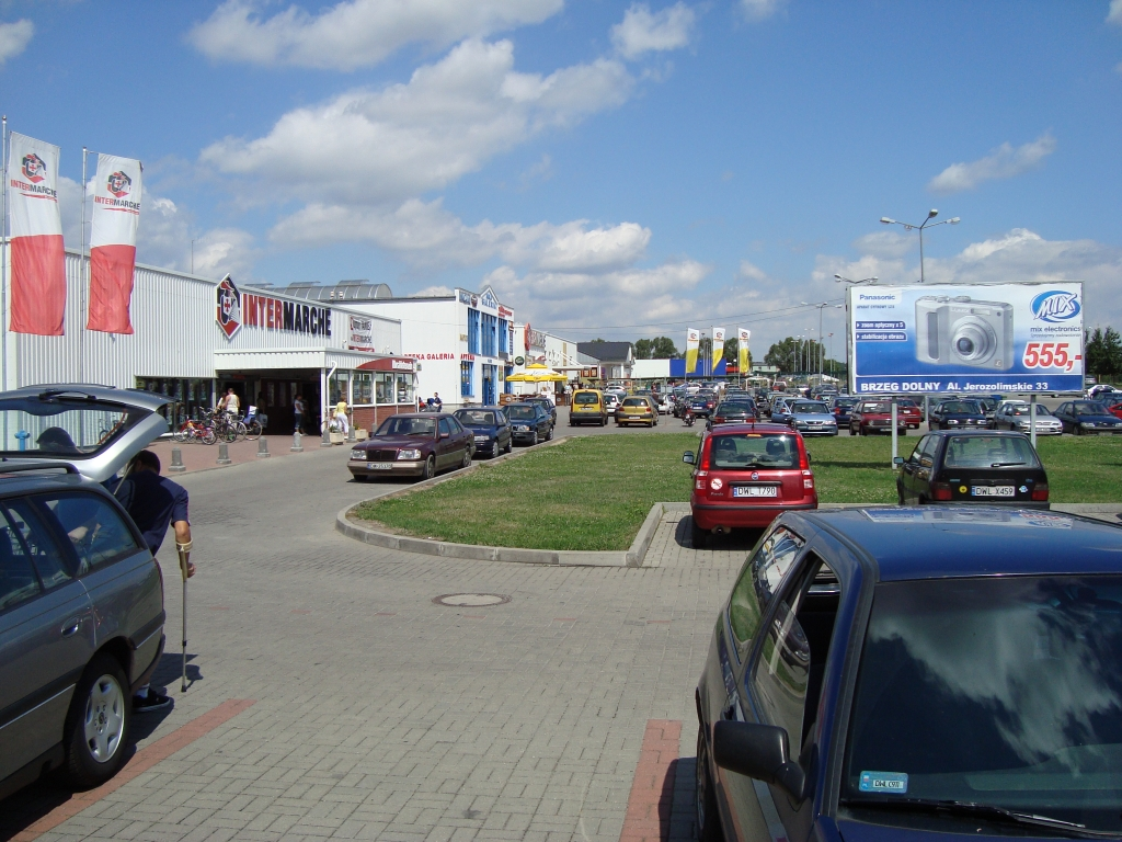 Shopping centre in Brzeg Dolny